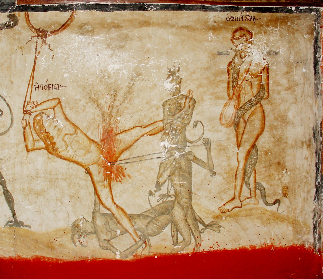 Demons torturing a "Whore" (H Porni) and a "Miser" (O Filargyros): Painter David Selinitziotis work, Orthodox church of Agios Ioannis Prodromos, at Kastoria, Greece (1727).